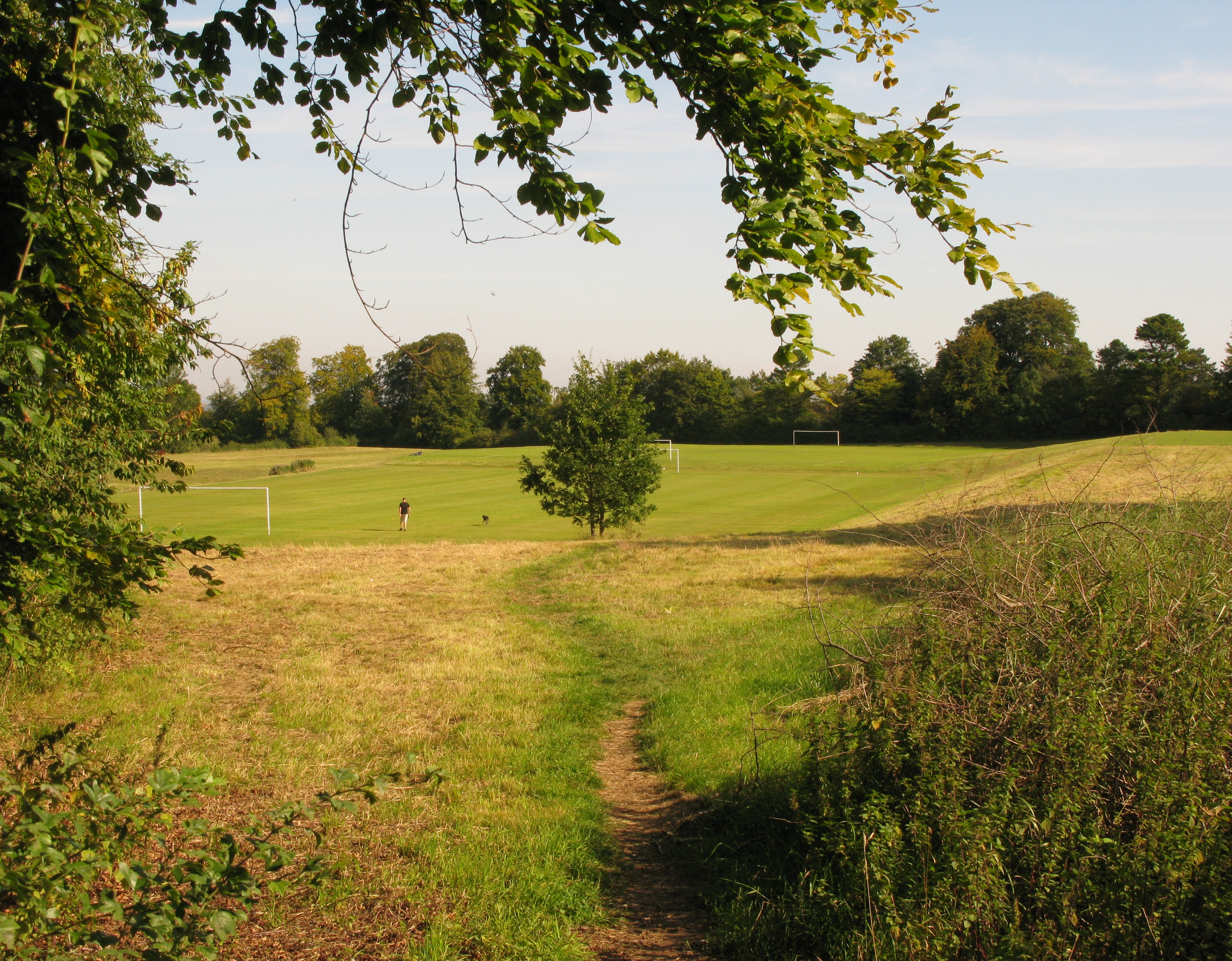 View of playing fields in Nork Park,Banstead, Surrey, England; looking NE from below where Nork House once stood. The tree overhanging is the end of a fine beech avenue. Typically for this park, a man walking a dog can be seen.